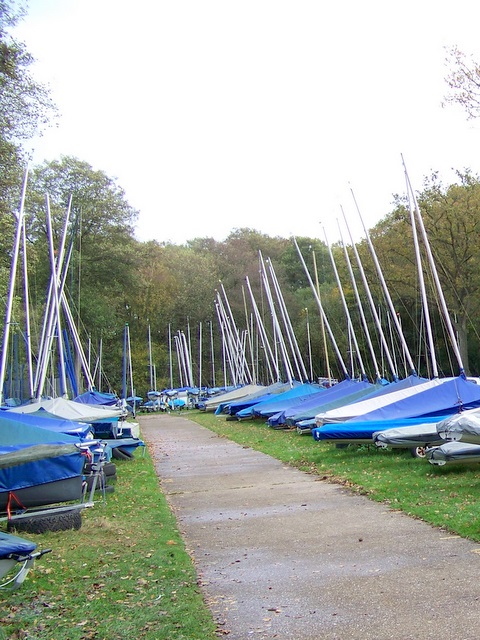 All covered up, Frensham Great Pond In this part of the sailing club all the dinghies are covered waiting for their turn to sail on the pond.